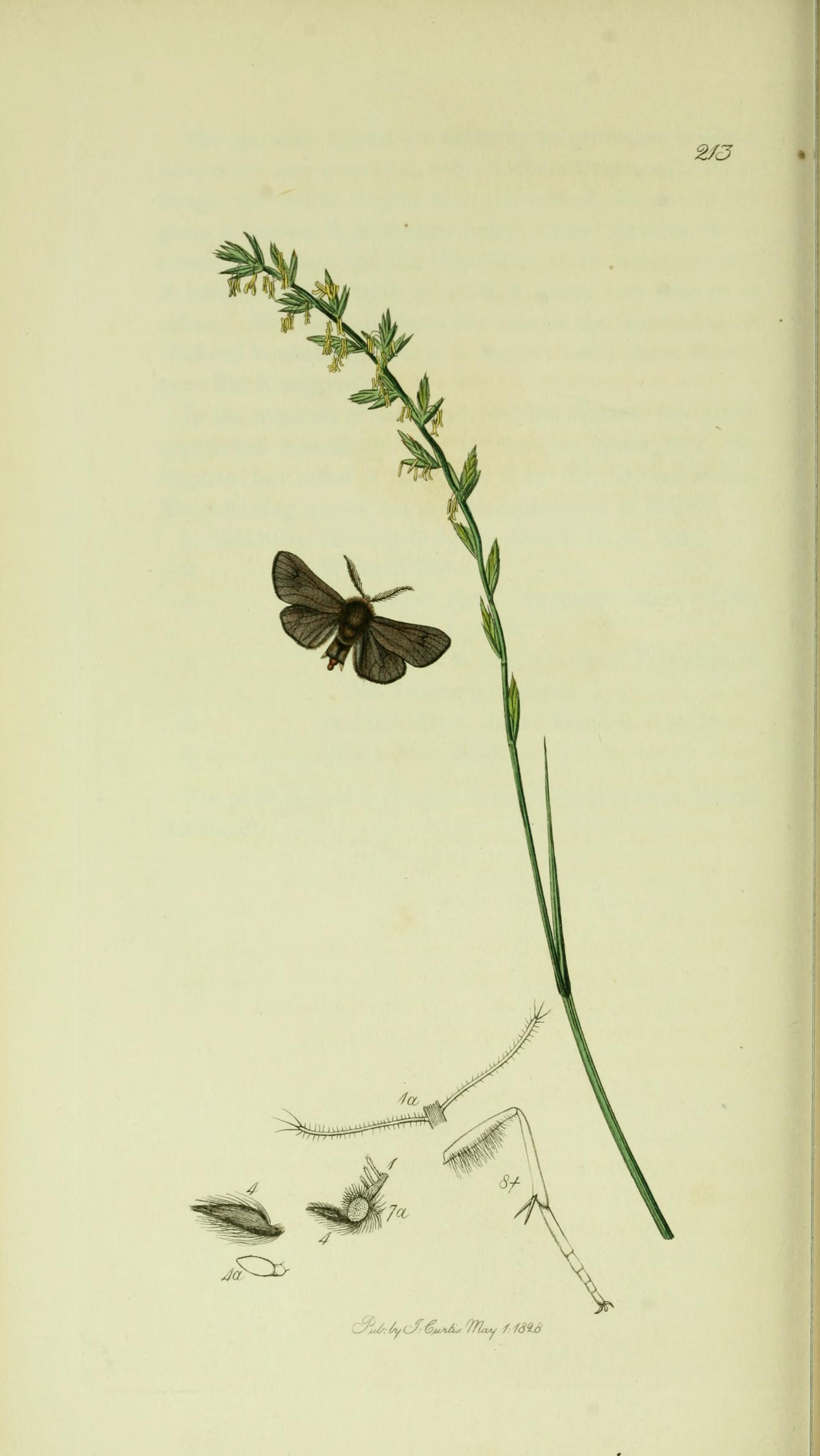 An illustration from British Entomology by John Curtis. Pentophera nigricans or Diaphora mendica (Muslin moth).